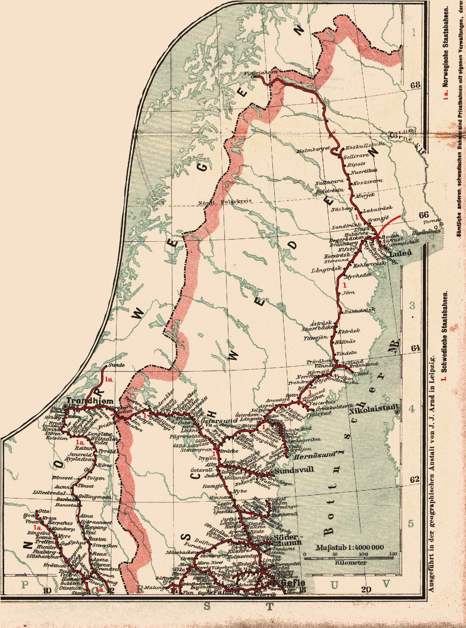 Map over the North Scandinavian railway network. Claimed to be from 1897, but it includes Ofotbanen and Boden-Morjärv, both opened 1902.